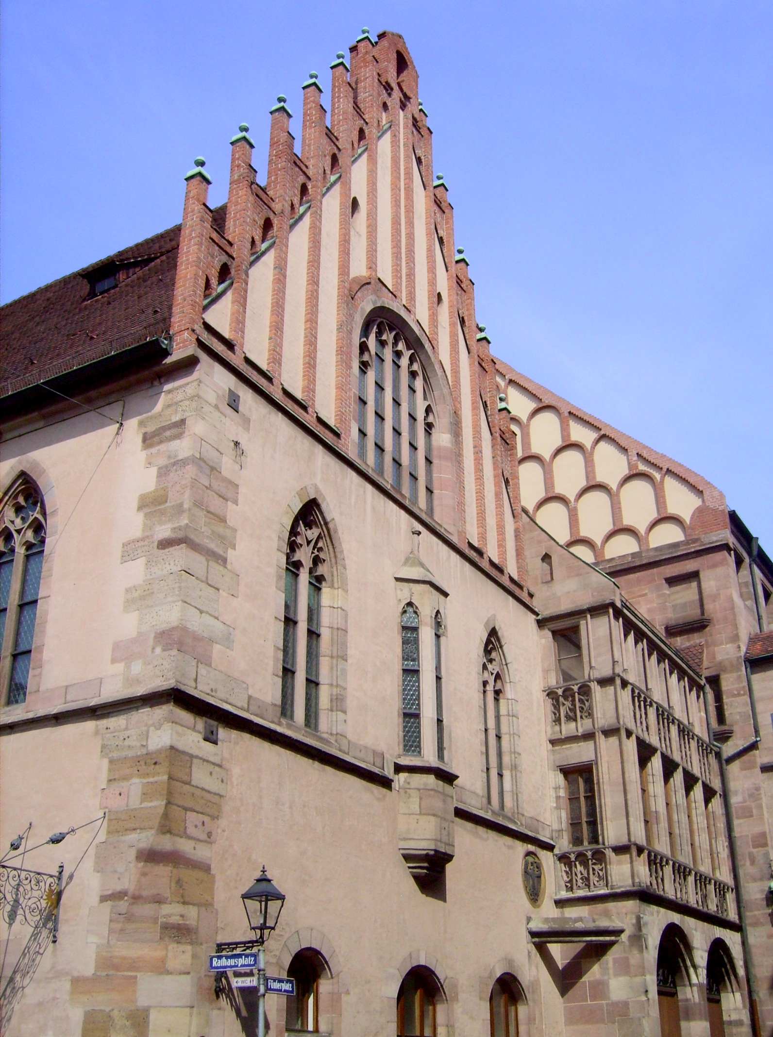 East side from The Town Hall of Nuremberg.